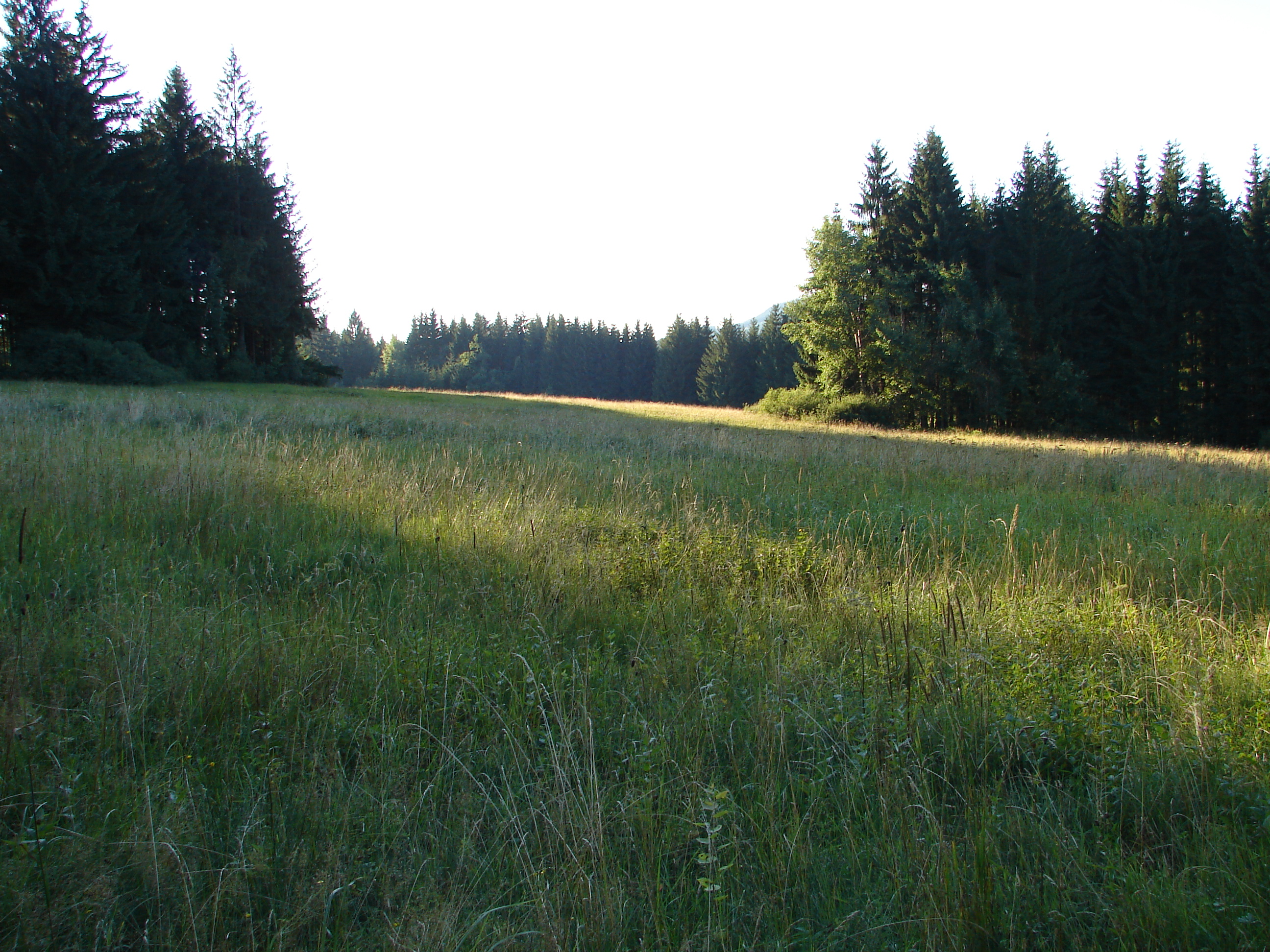 Nature reserve Bukovec near Bukovec village, Frýdek-Místek District, Czech Republic